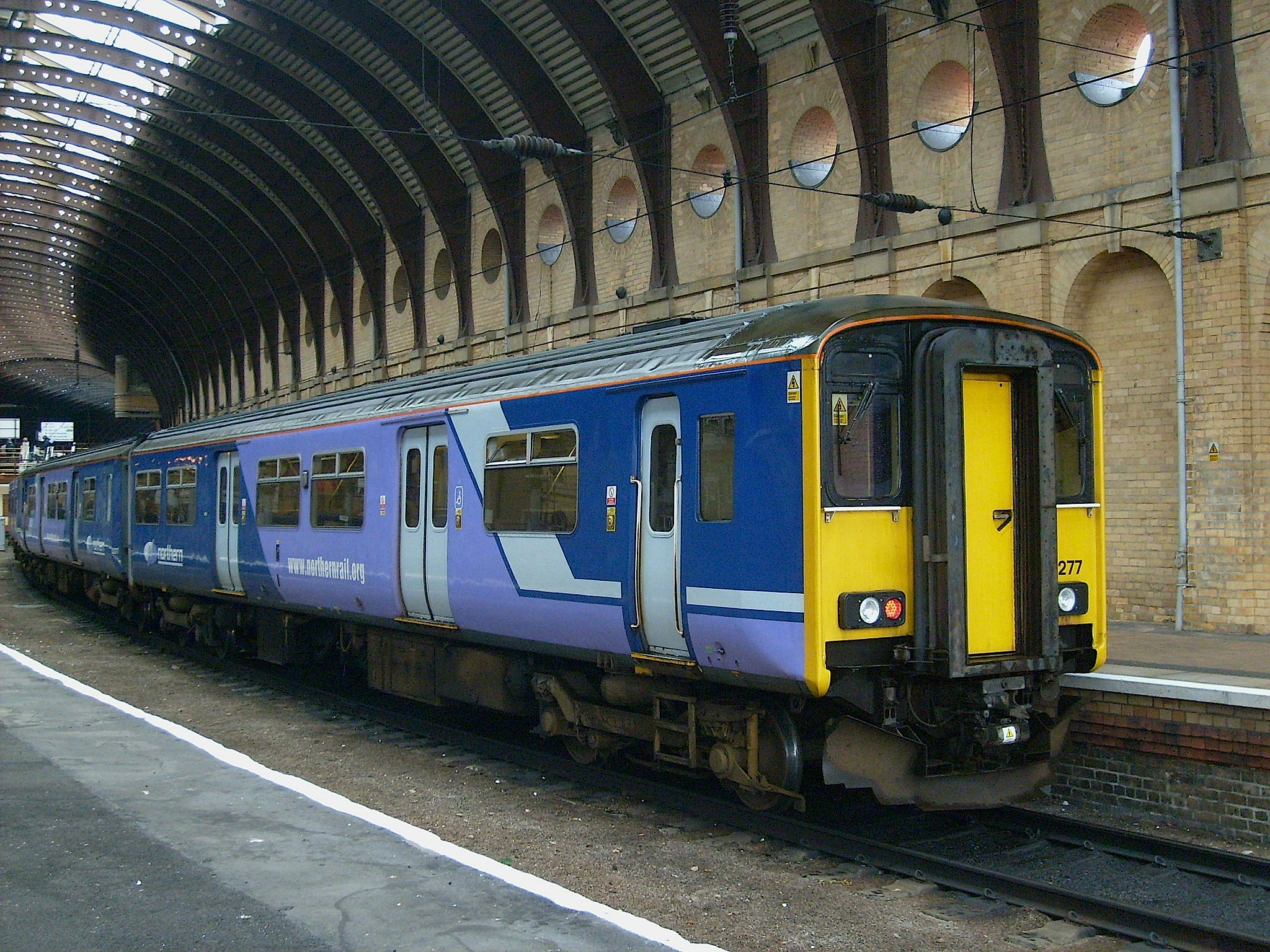 Northern Rail Class 150/2 No. 150277 at York